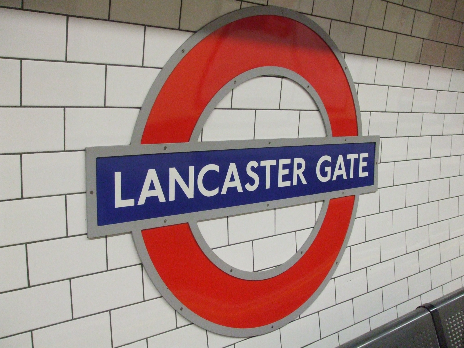 Lancaster Gate tube station platform roundel